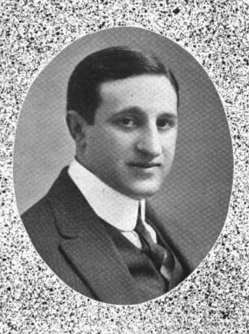 Photograph of Jules Eckert Goodman (1876-1962), American playwright, which appeared in the January 1916 issue of Theatre Magazine (at p. 17).